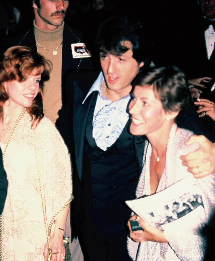 Helen Reddy with Sylvester Stallone at a private party after the premiere of the movie "Fist" in 1978.